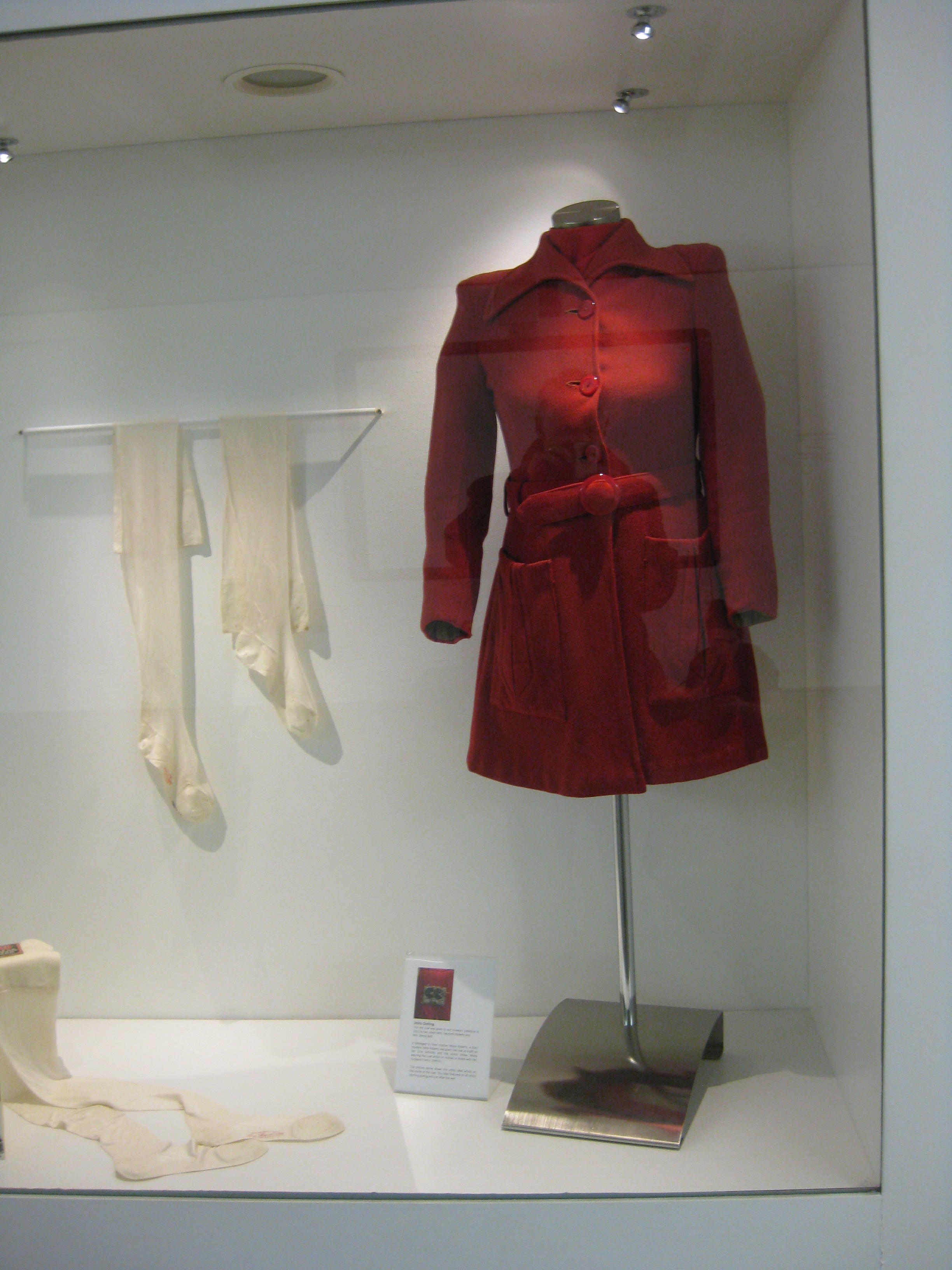 Utility Clothing on display at the Bury Art Museum. Stockings and red coat, formerly owned by Mona Roberts.